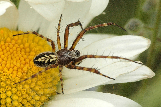 male Aculepeira ceropegi from Commanster, Belgian High Ardennes .